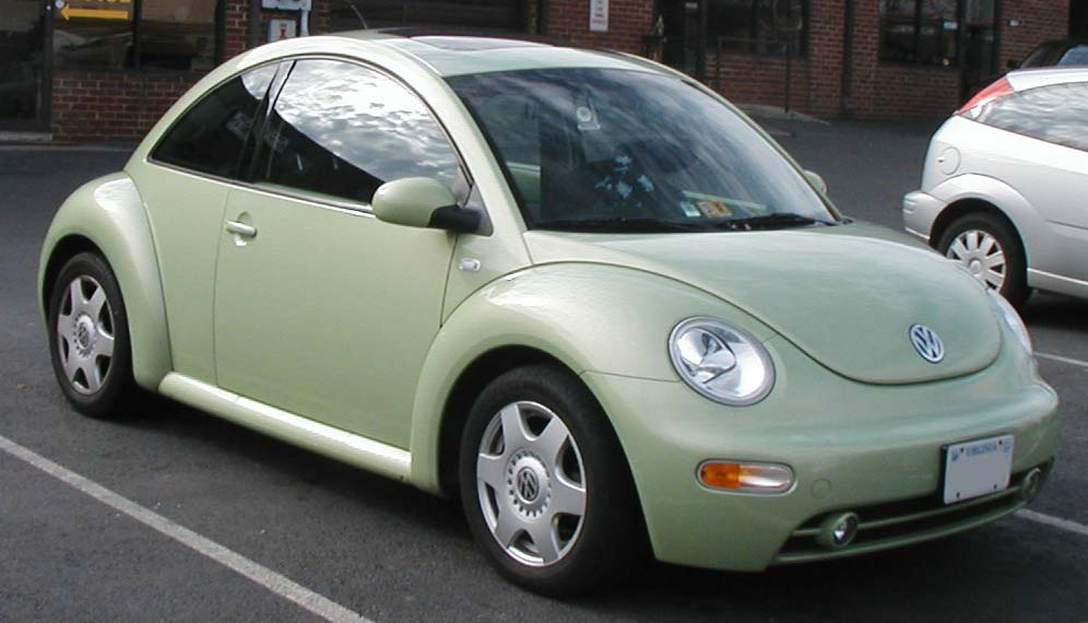 1998-2005 Volkswagen New Beetle photographed in USA.